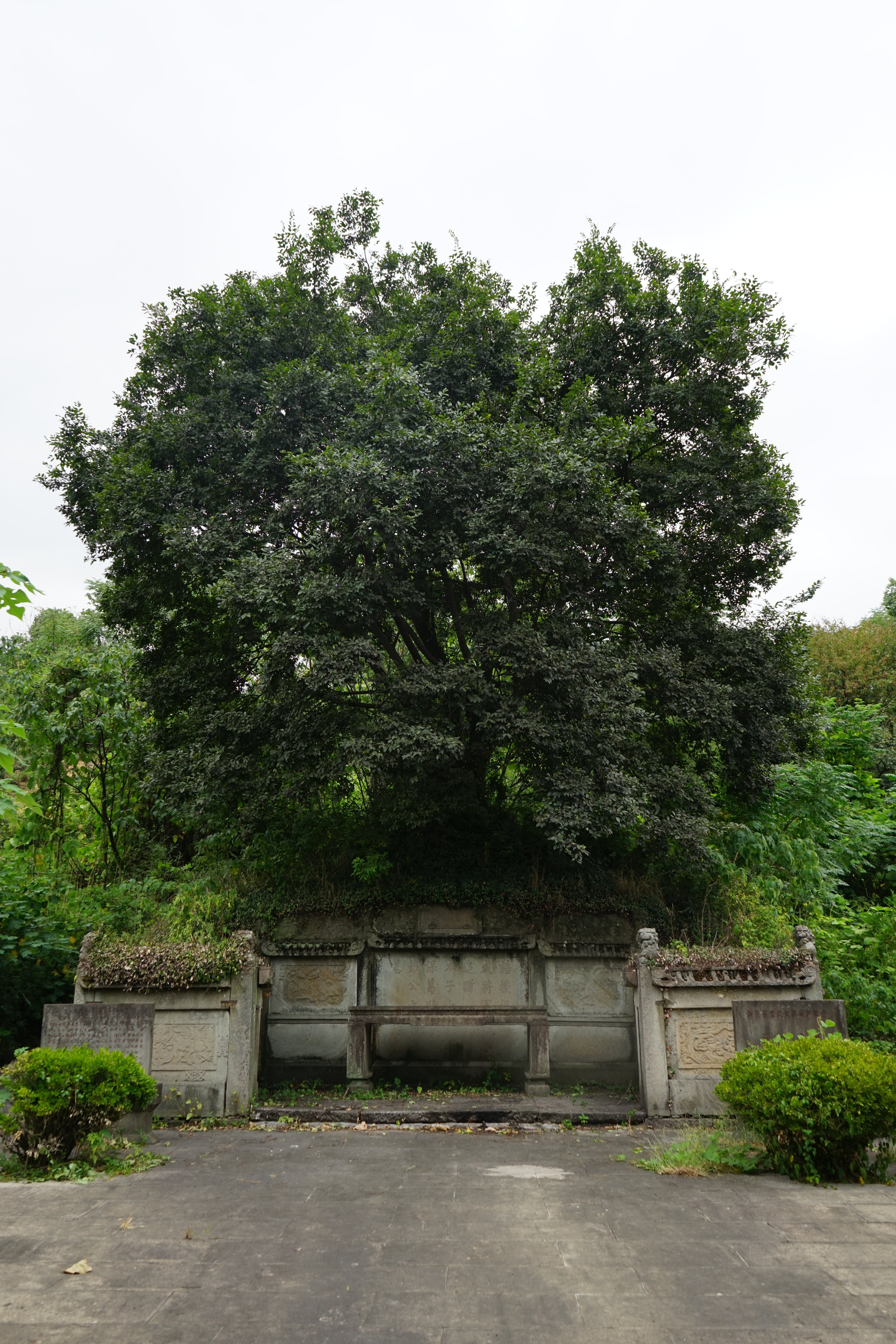 Ge Yunfei Tomb, trees